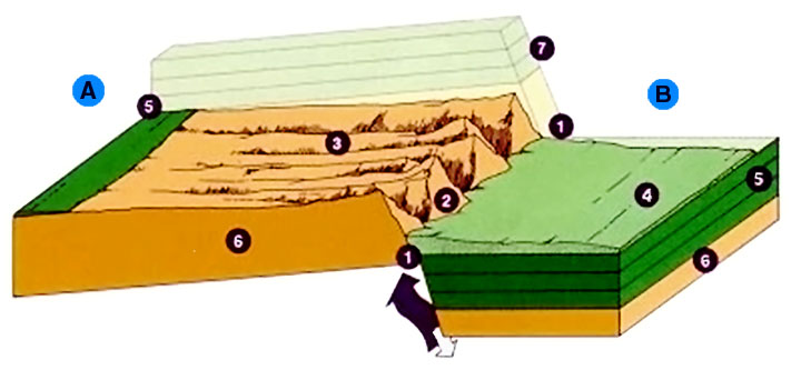 Schematic diagram of geological fault with thrown blocks. 1 Teton Fault Zone 2 Steep eastern face 3 Gentle western slope 4 Valley floors filled with sediments of cobbles, gravel, and sand 5 Sedimentary rock layers 6 Bedrock 7 Sedimentary rock layers now worn away; these matched layers 5